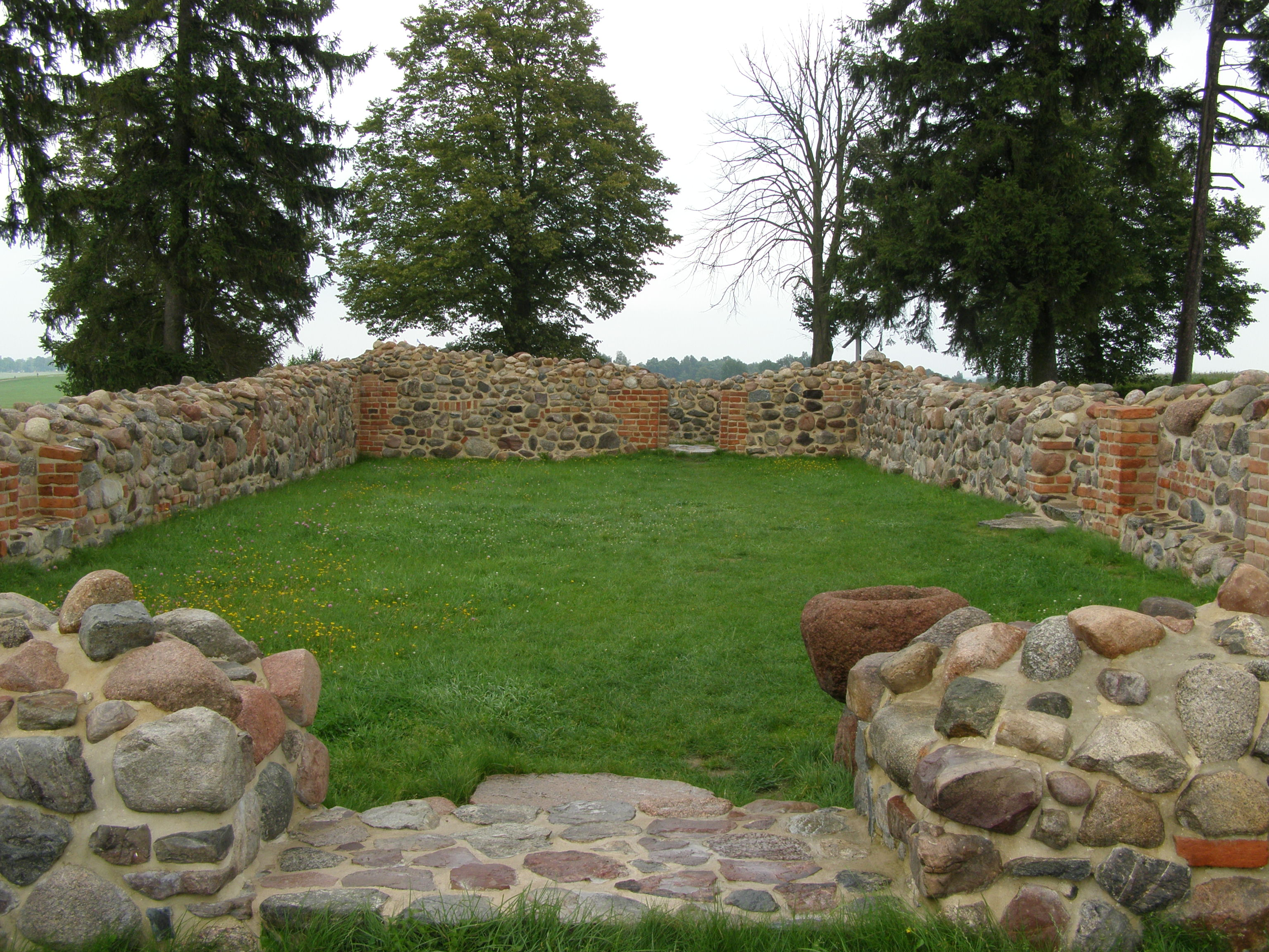 The ruins of the chapel built in the place of burial of those who died during the Battle of Grunwald (1410)